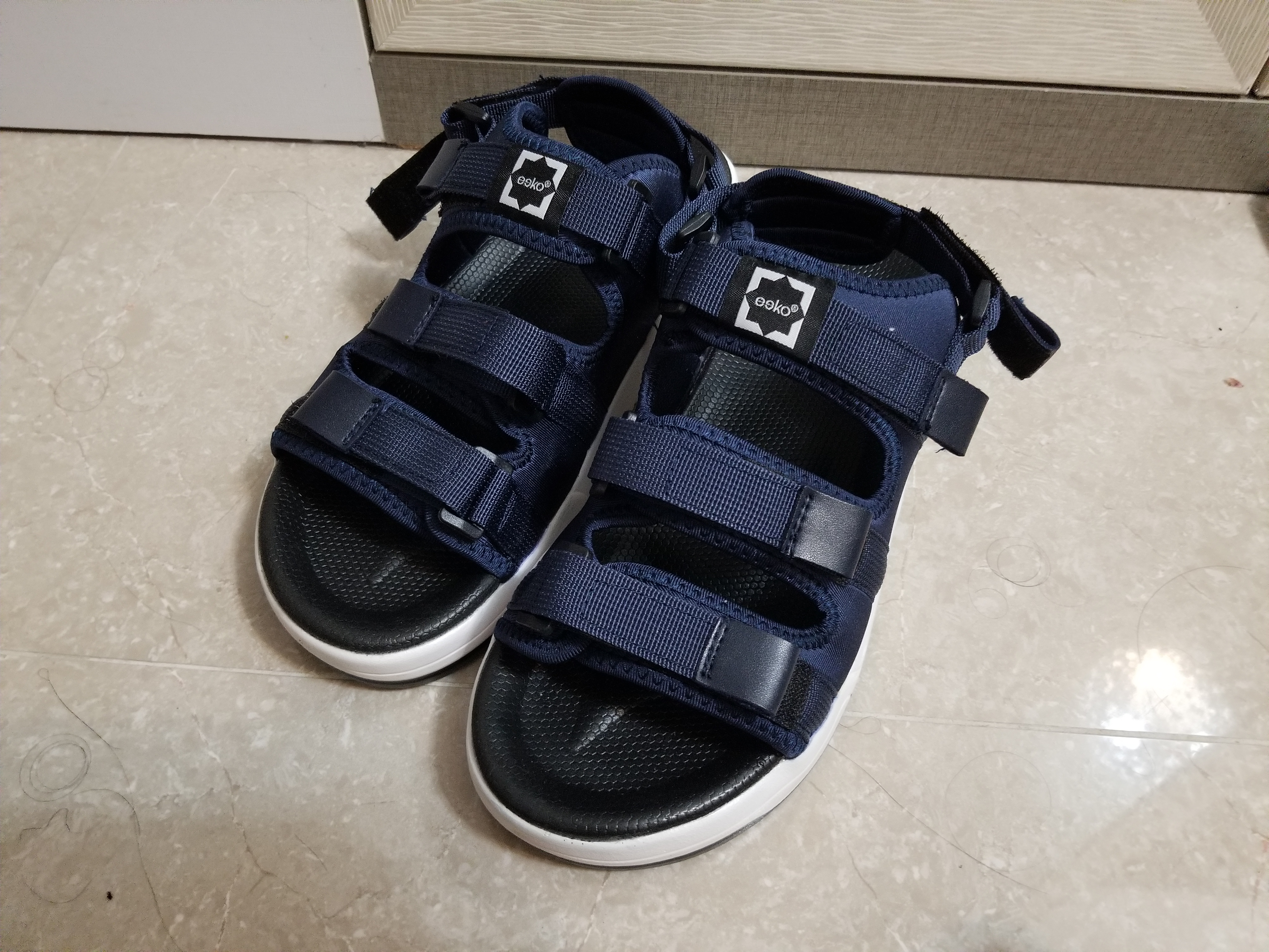 Eeko black color sandal in home